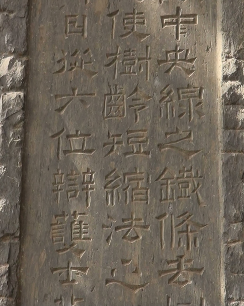 Backside of Shingen-ko Hatakake-matsu pine tree Monument